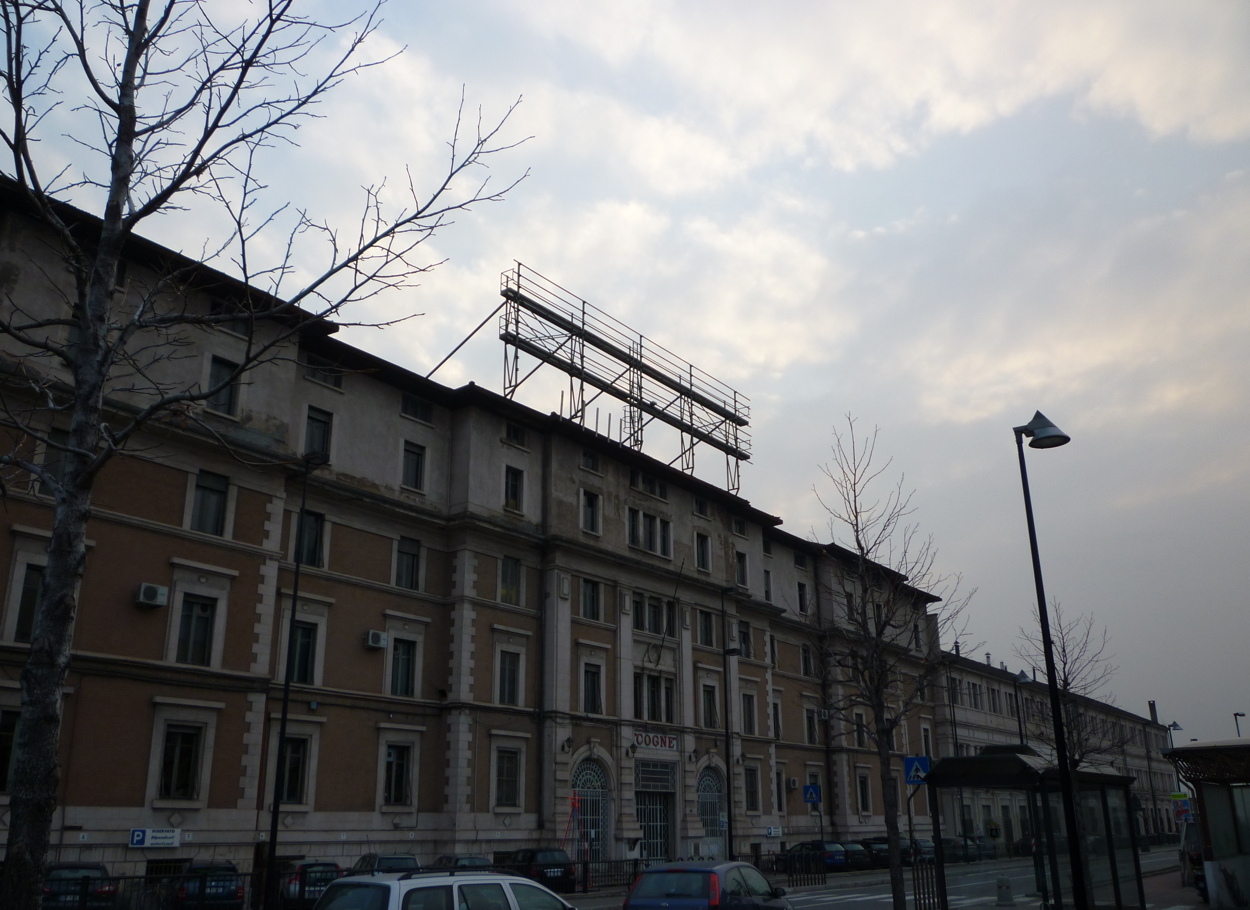 Facade of Cogne industry in Aosta/Aoste (Italy)